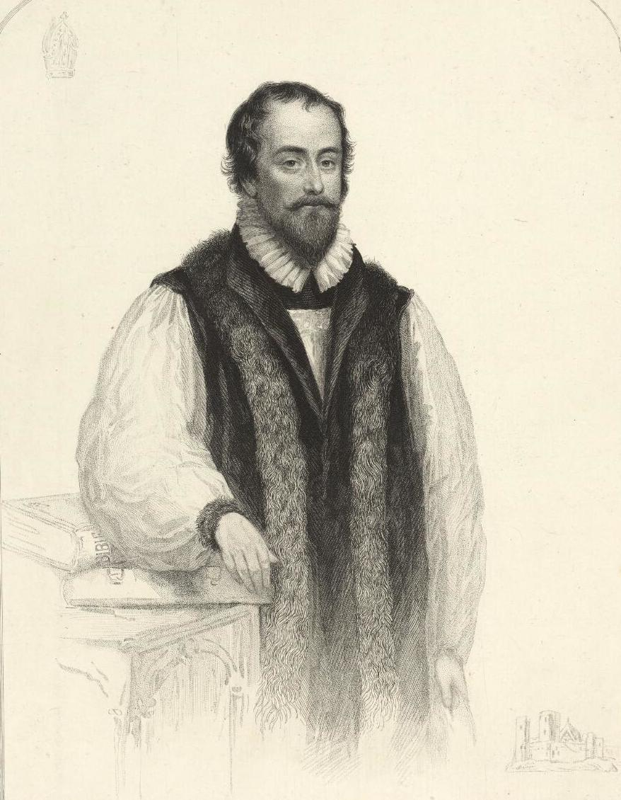 A portrait from the Welsh Portrait Collection at the National Library of Wales. Depicted person: Robert Ferrar – English bishop